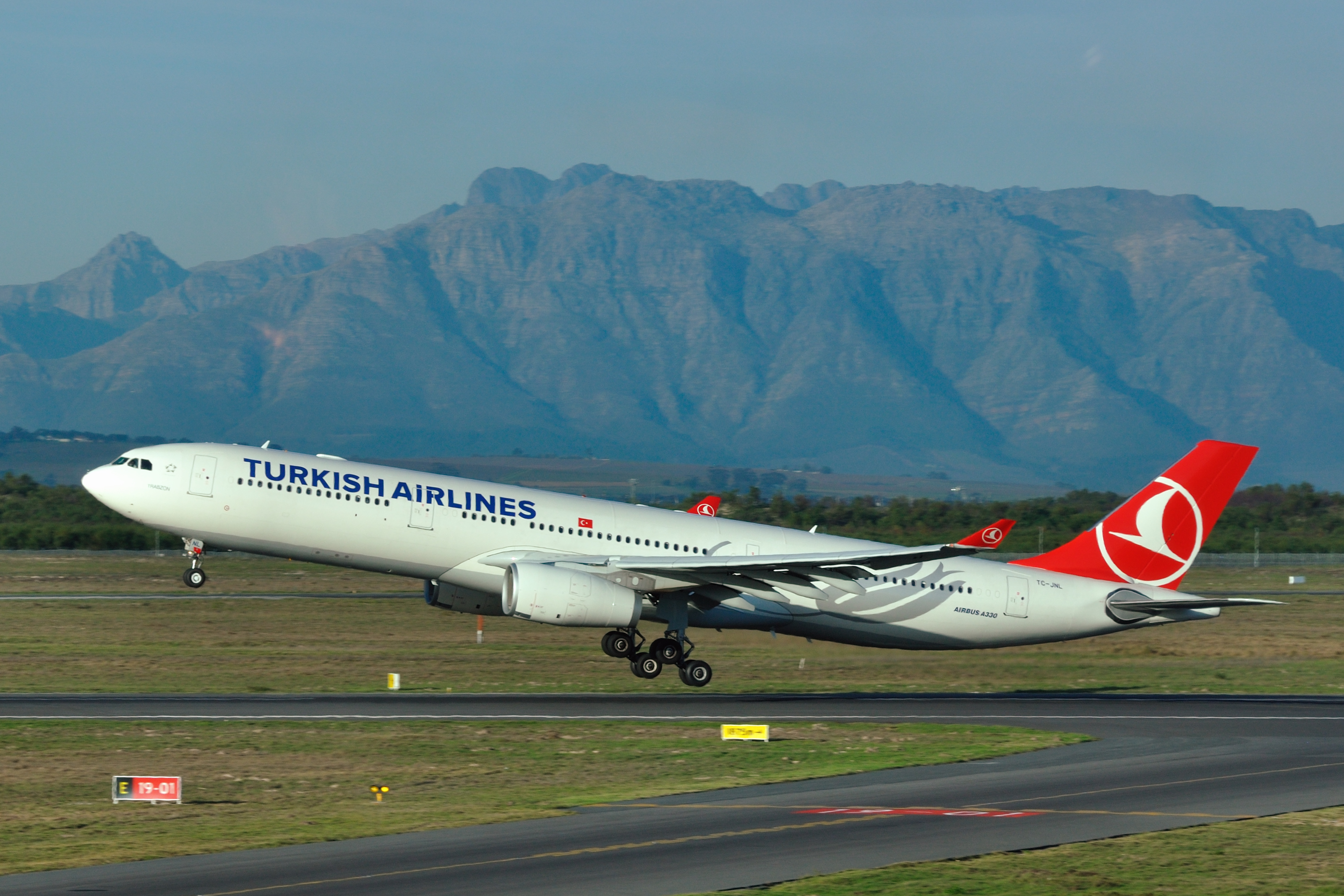 Airbus A330 TC-JNL of Turkish Airlines. Take off at Cape Town Airport. Other photographs in this sequence : File:2011-06-21 16-27-52 South Africa - Crossroads - TC-JNL.jpg